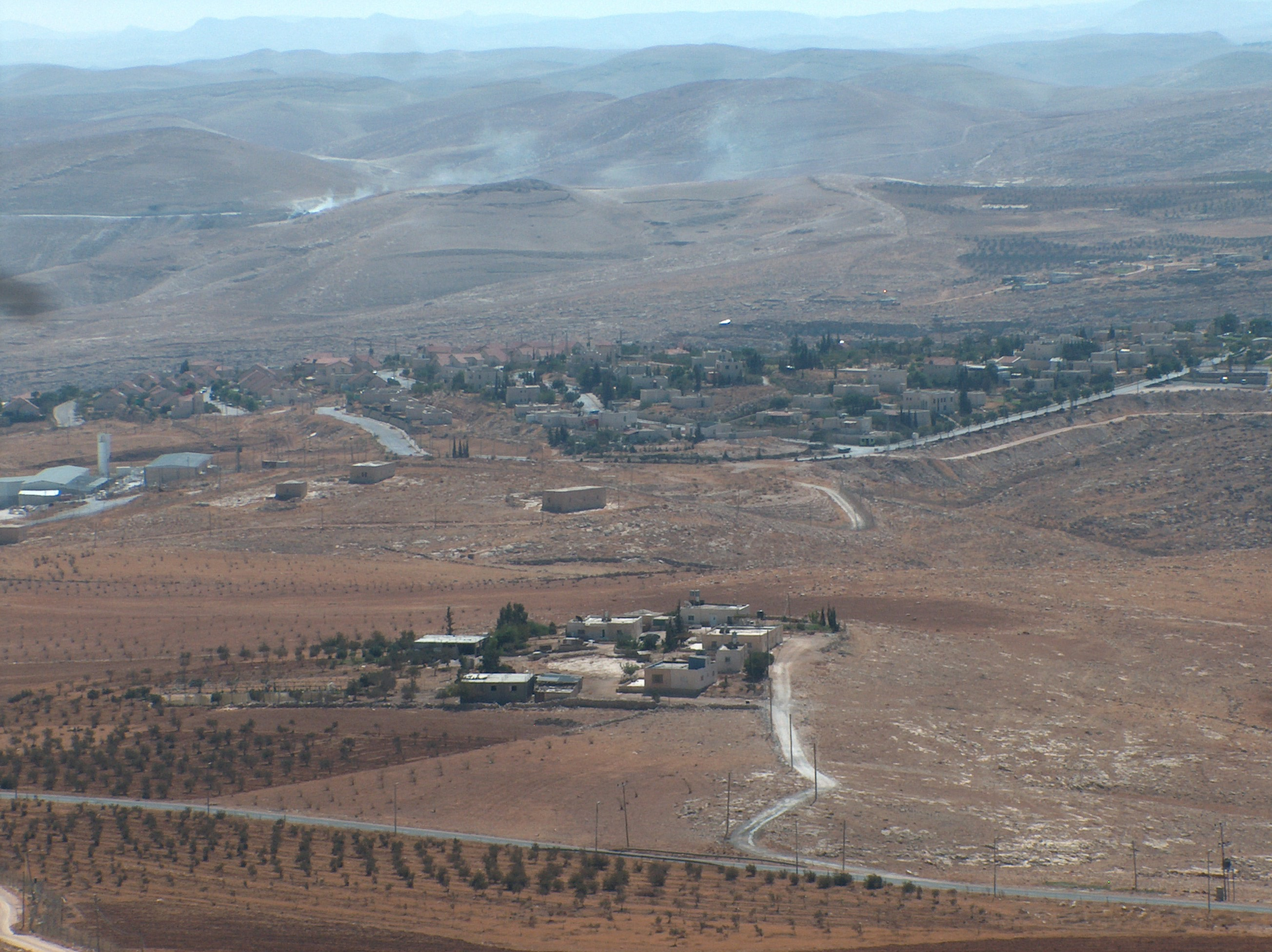 View of the settlement Nokdim from Herodion mountain